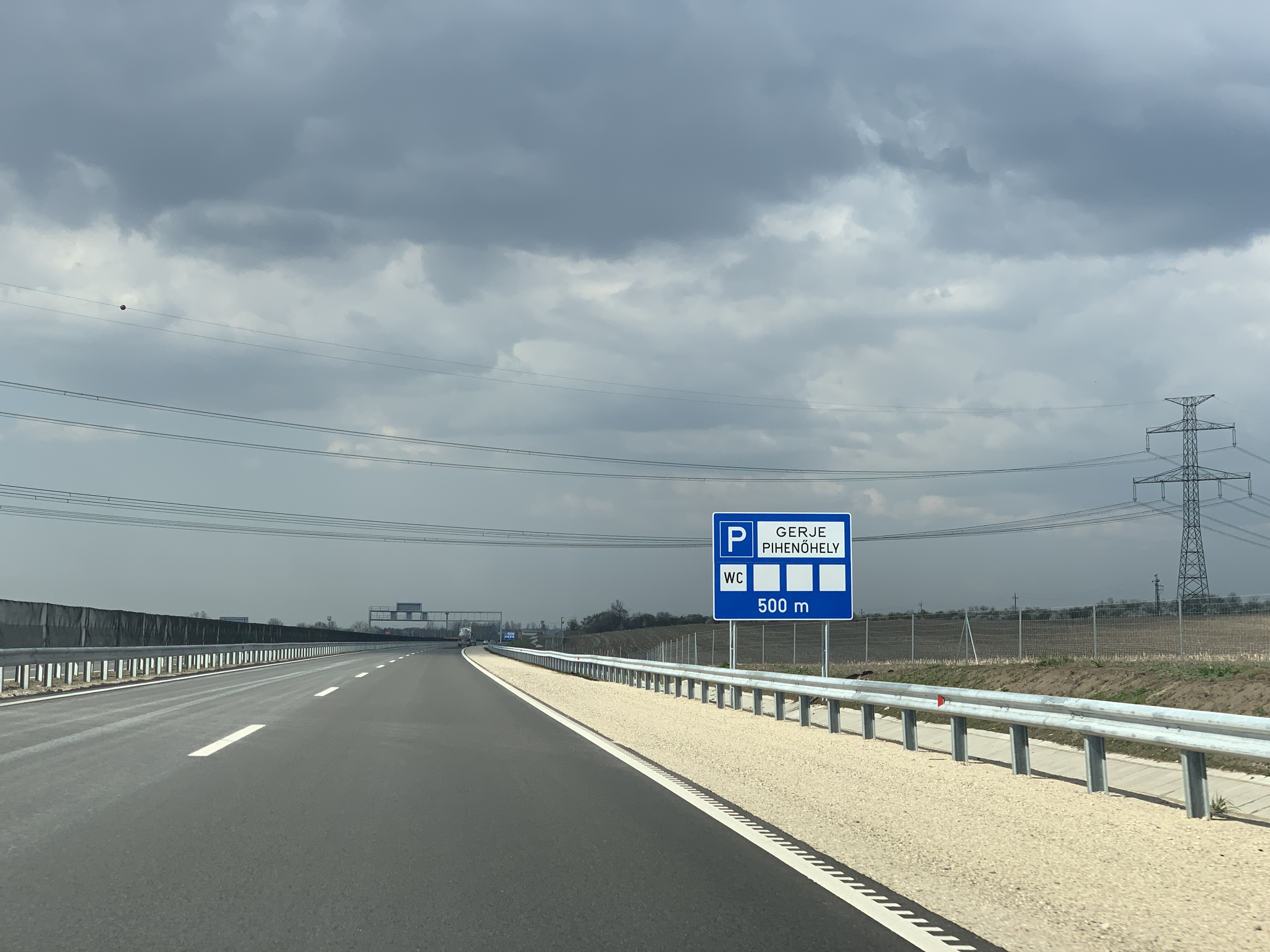 Motorway M4 in Hungary, near Gerje pihenőhely at Pilis, in the direction of Budapest